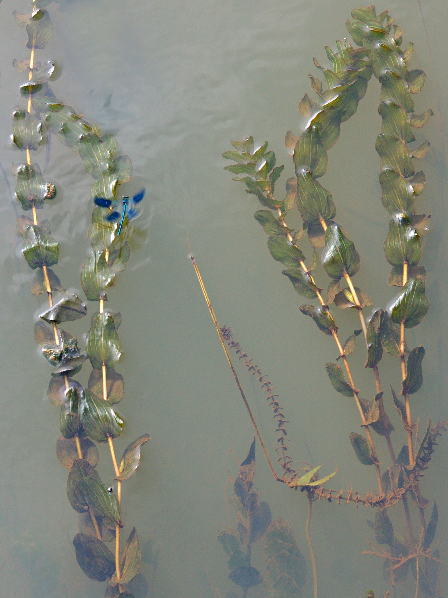 Floating waterplant Perfoliate Pondweed, Potamogeton perfoliatus, and a flying male damselfly Calopteryx splendens.